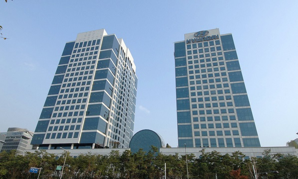 The current headquarters of the Hyundai Motor Corporation (right), opened in 2000 at the Hyundai Motor Group Complex.